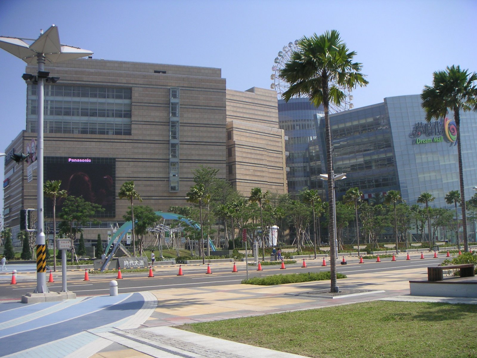 Dream Mall in Kaohsiung.